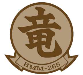 Squadron insignia for HMM-265